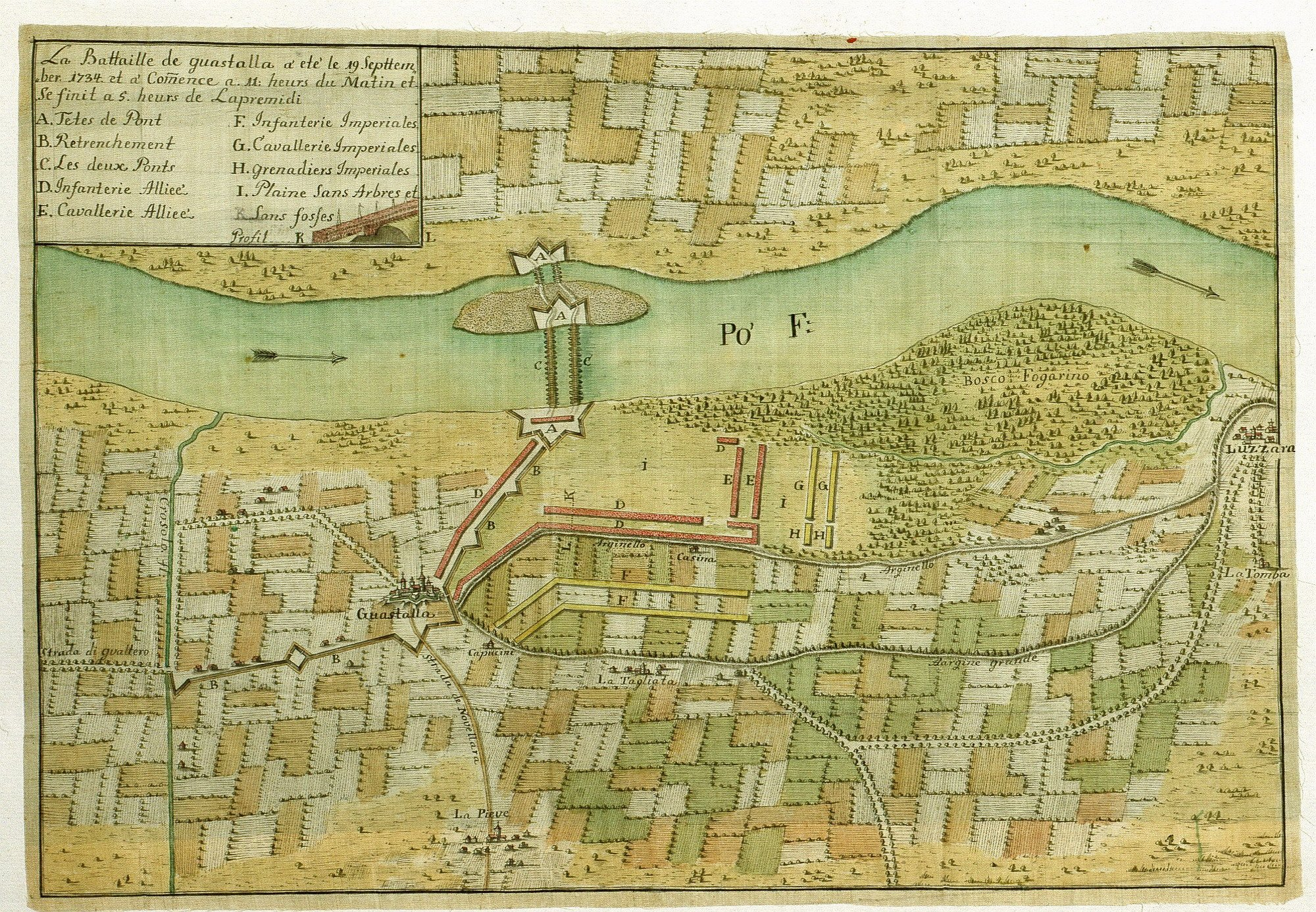 Hand-colored period map depicting the battle order for the 1734 Battle of Guastalla.